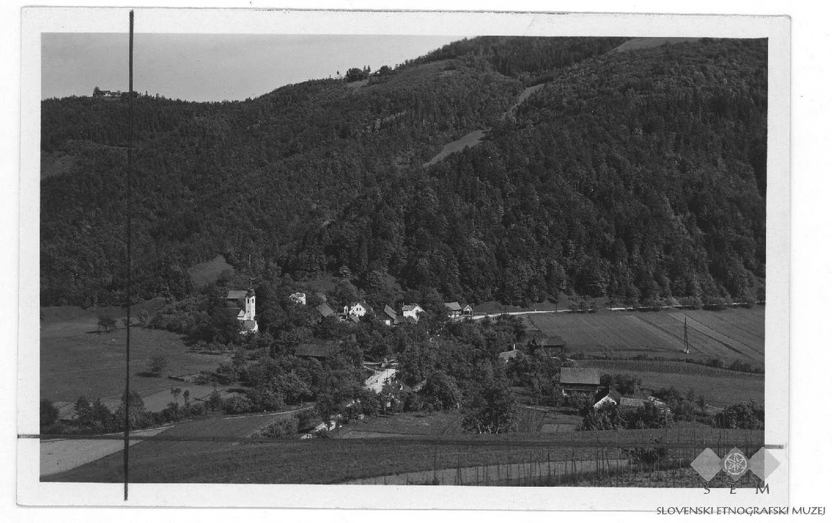 Postcard of Ločica pri Vranskem